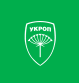 УКРОП – партія патріотів України. Вільної країни вільних людей.